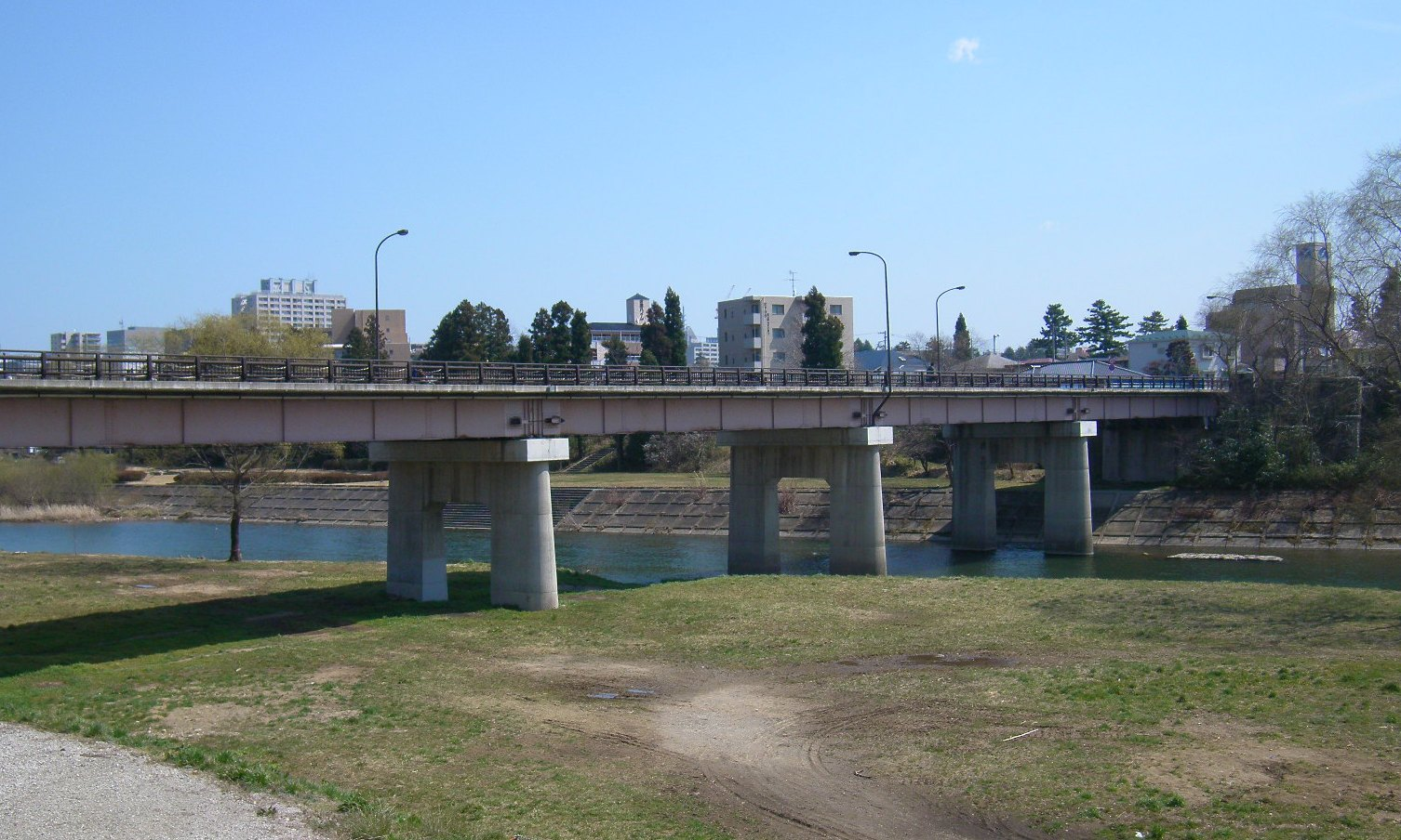 Yodomi Bridge of Hirose River. Aoba ward, Sendai, Miyagi prefecture, Japan. From the left bank.